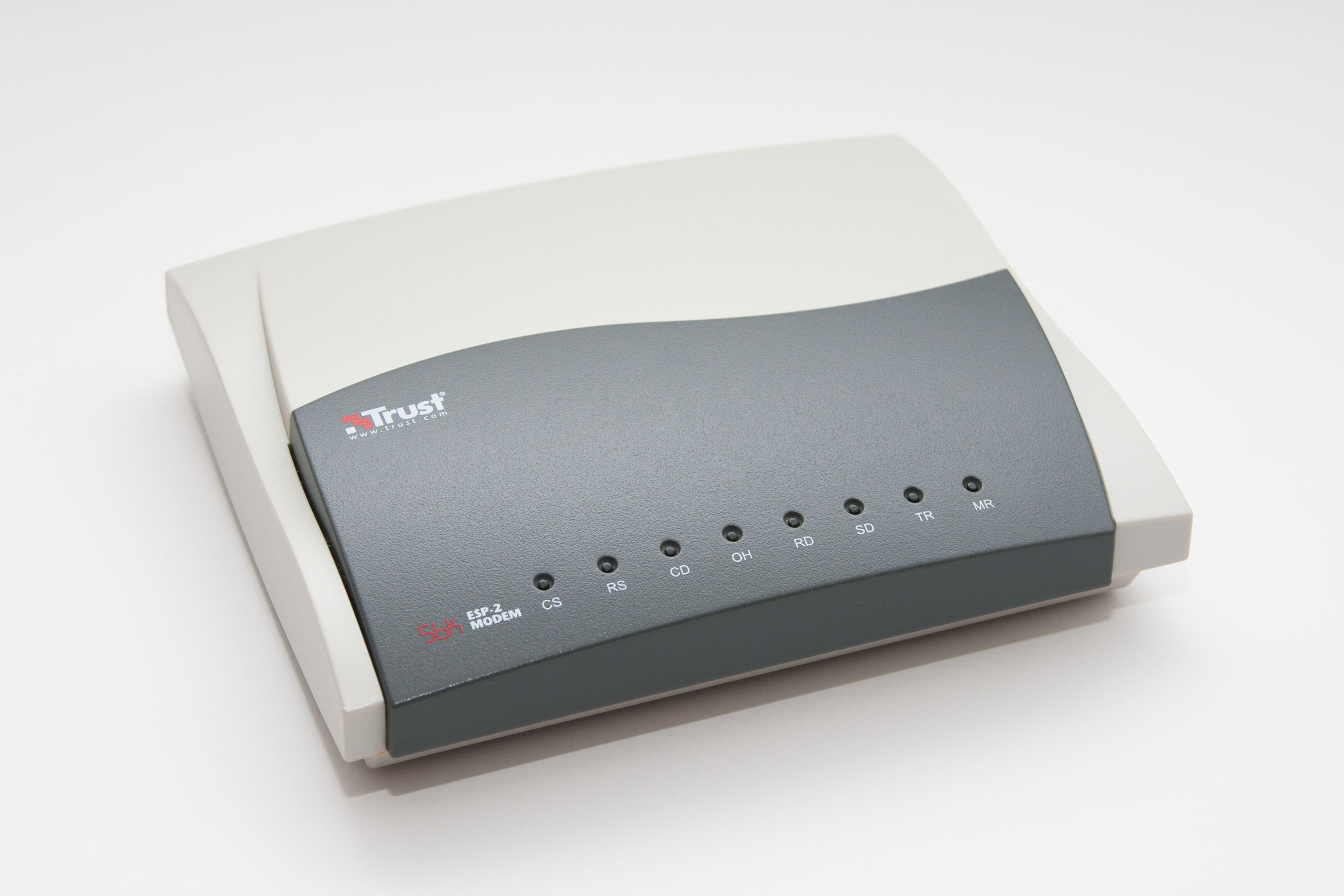 Analog Modem 56K from first 2000 years